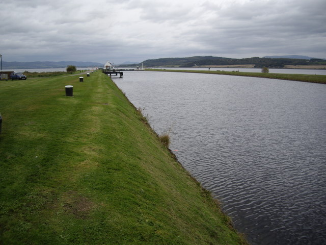 A long reach to the sea lock The Caledonian Canal from Clachnaharry.